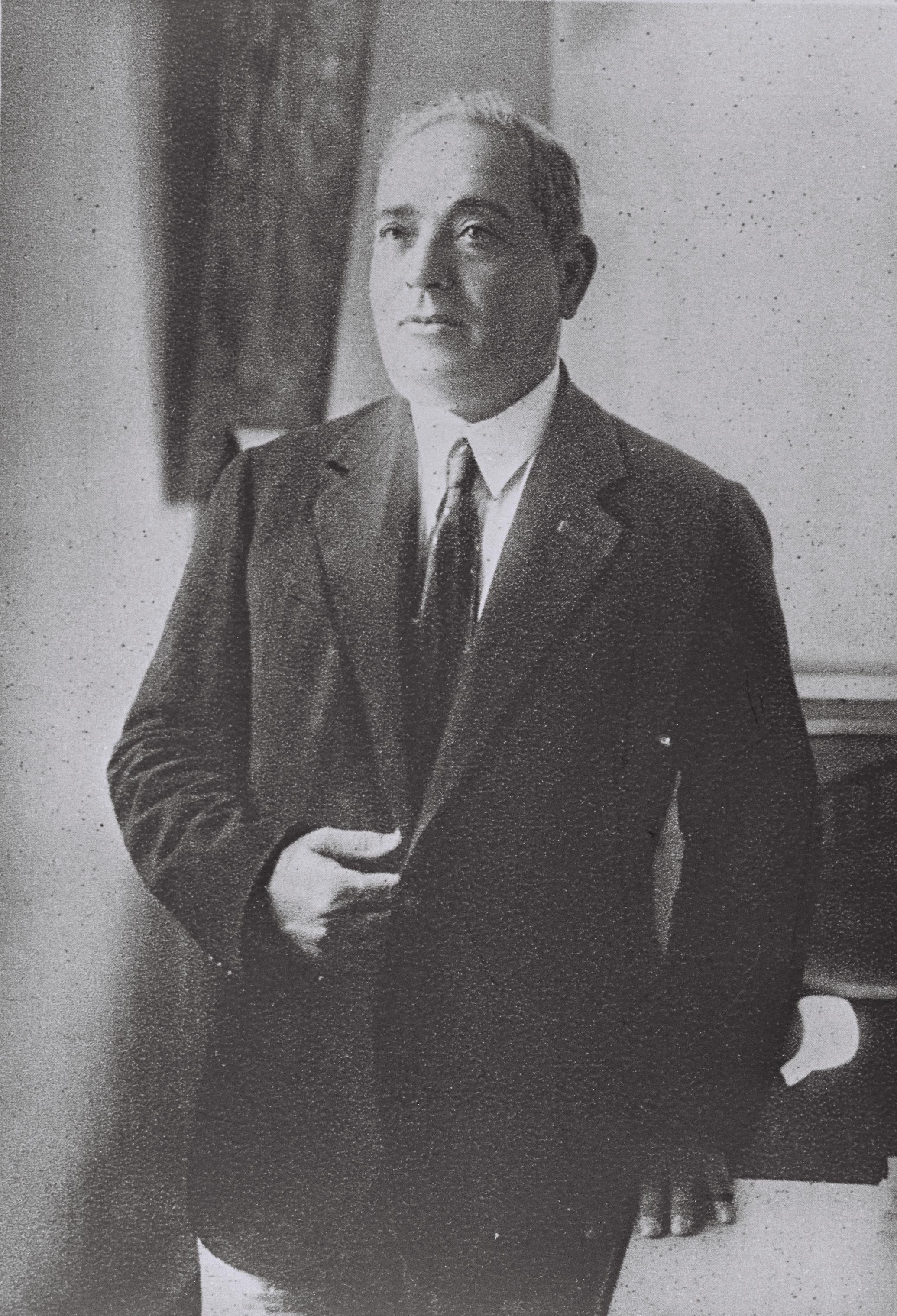 MEIR DIZENGOFF, MAYOR OF TEL AVIV. ראש עיריית תל אביב, מאיר דיזינגוף.